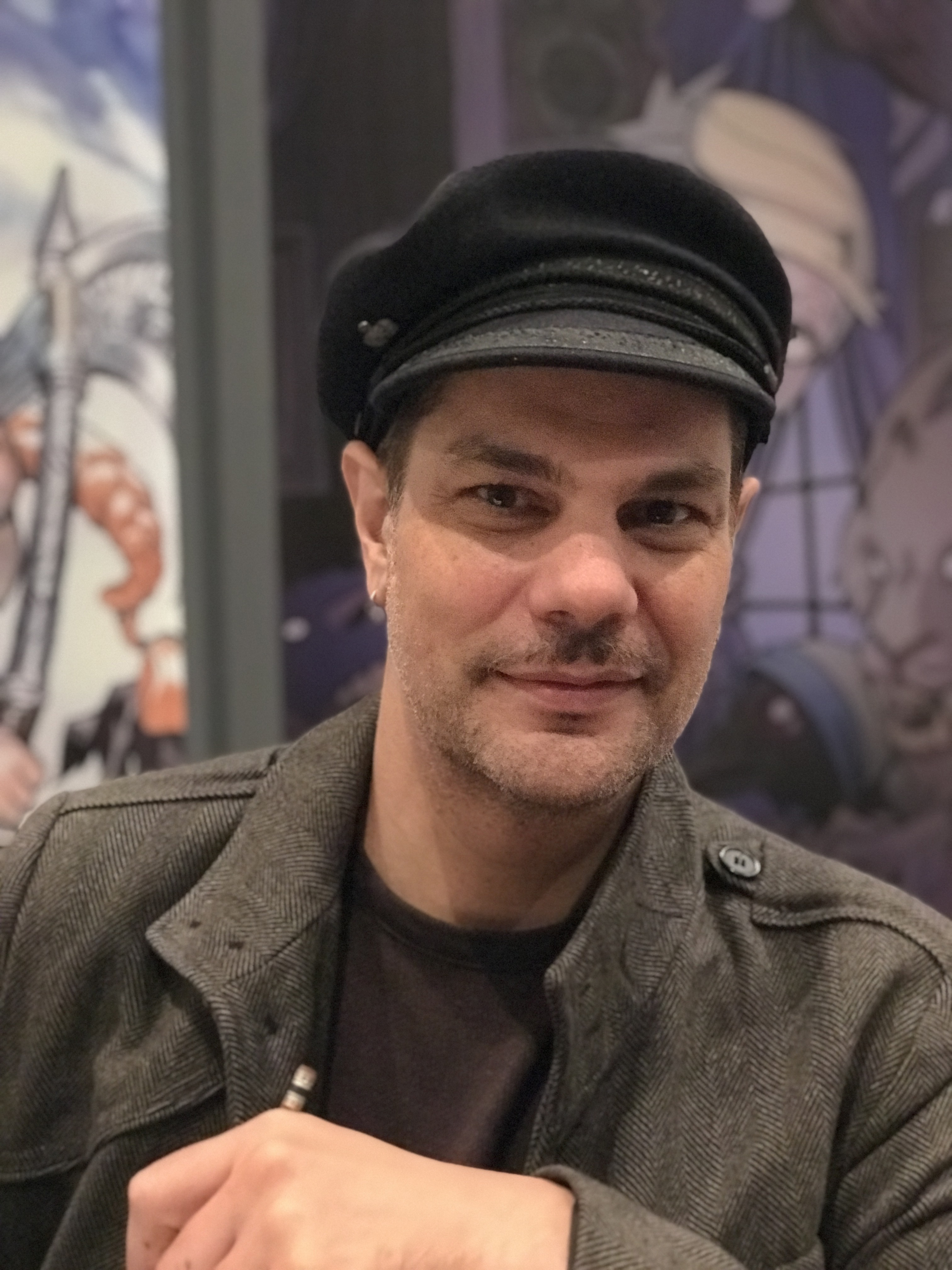 Comics creator Ted Naifeh in Artists Alley at the Jacob K. Javits Convention Center in Manhattan on Thursday, October 5, 2017, Day 1 of the 2017 New York Comic Con. This photo was created by Luigi Novi. It is not in the public domain, and use of this file outside of the licensing terms is a copyright violation.